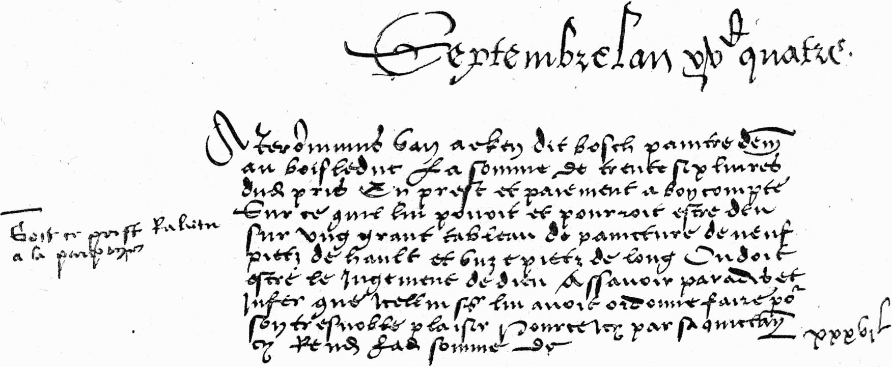 Account of a down payment of £36 payed by Philip I of Castile for a painting of the Last Judgment (Paradise and Hell) to be executed by Jheronimus Bosch. Archives départementales du Nord, Lille, register B. 2185, fol. 230 vo.